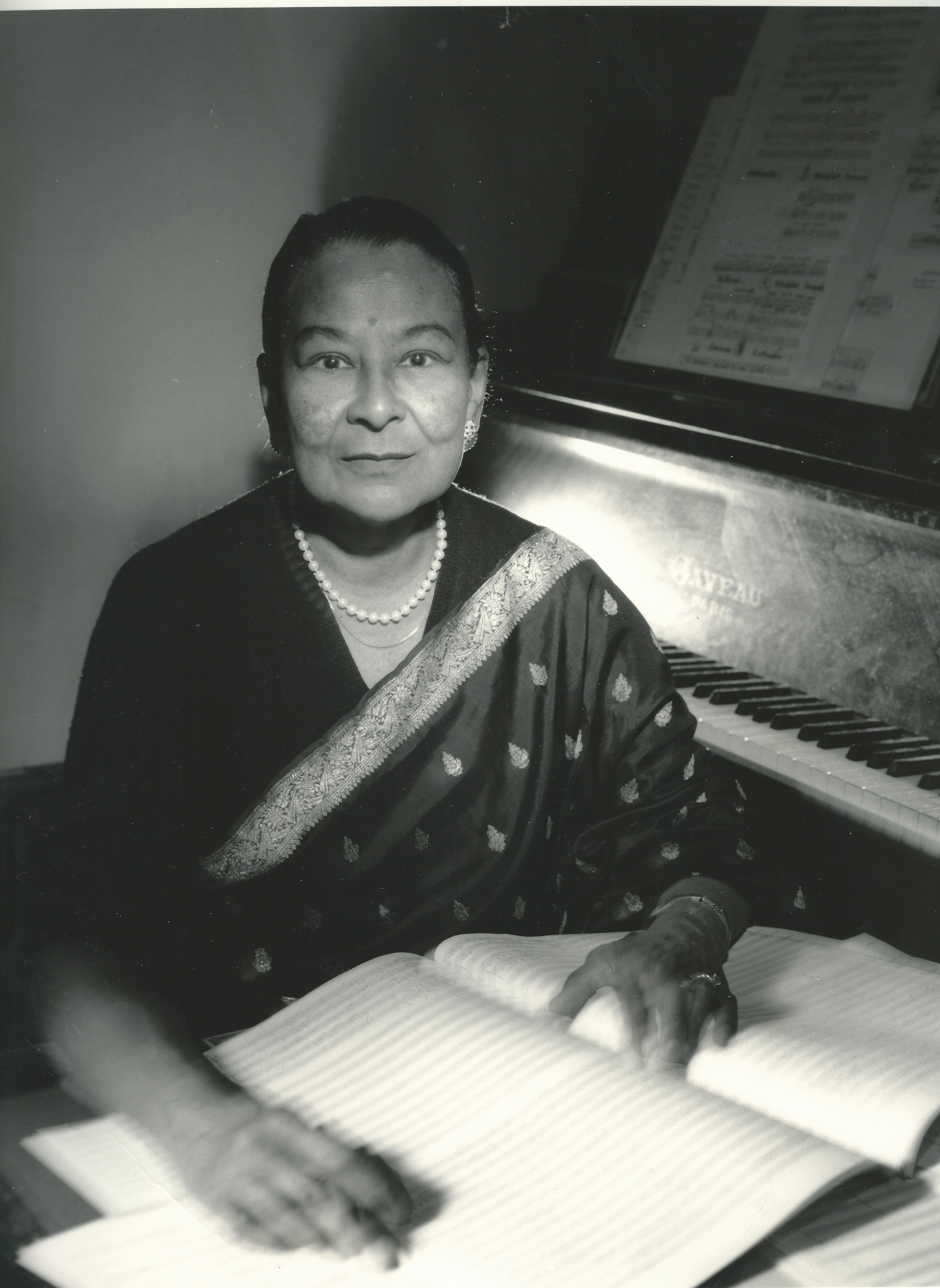 family picture of pianist Majoie Hajary (1921 - 2017)